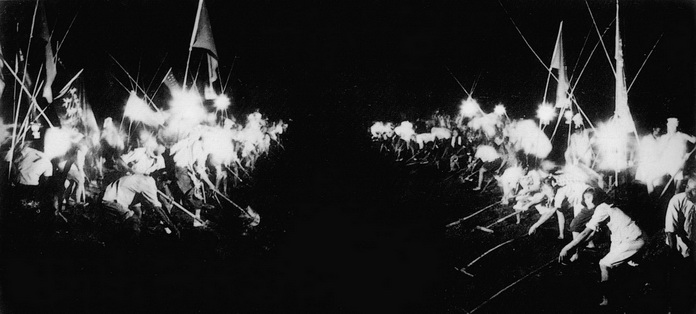 In Xinyang county, Henan, during the Great Leap Forward era, commune members worked in the night, using lamps as light.